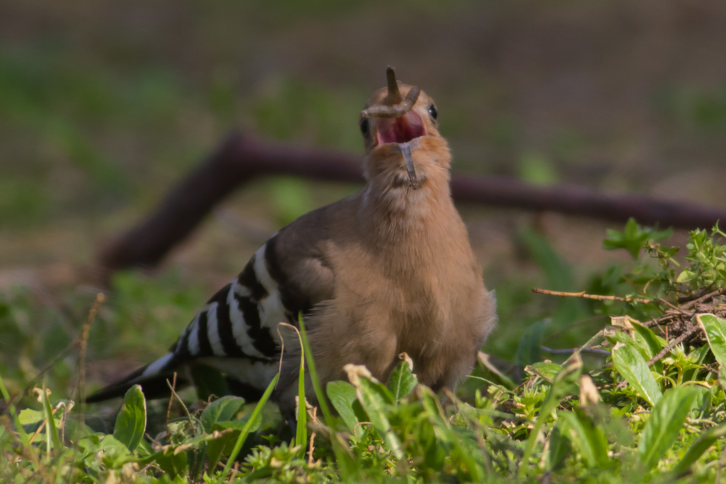 Upupa epops eating a worm, Ashkelon National Park, Israel.